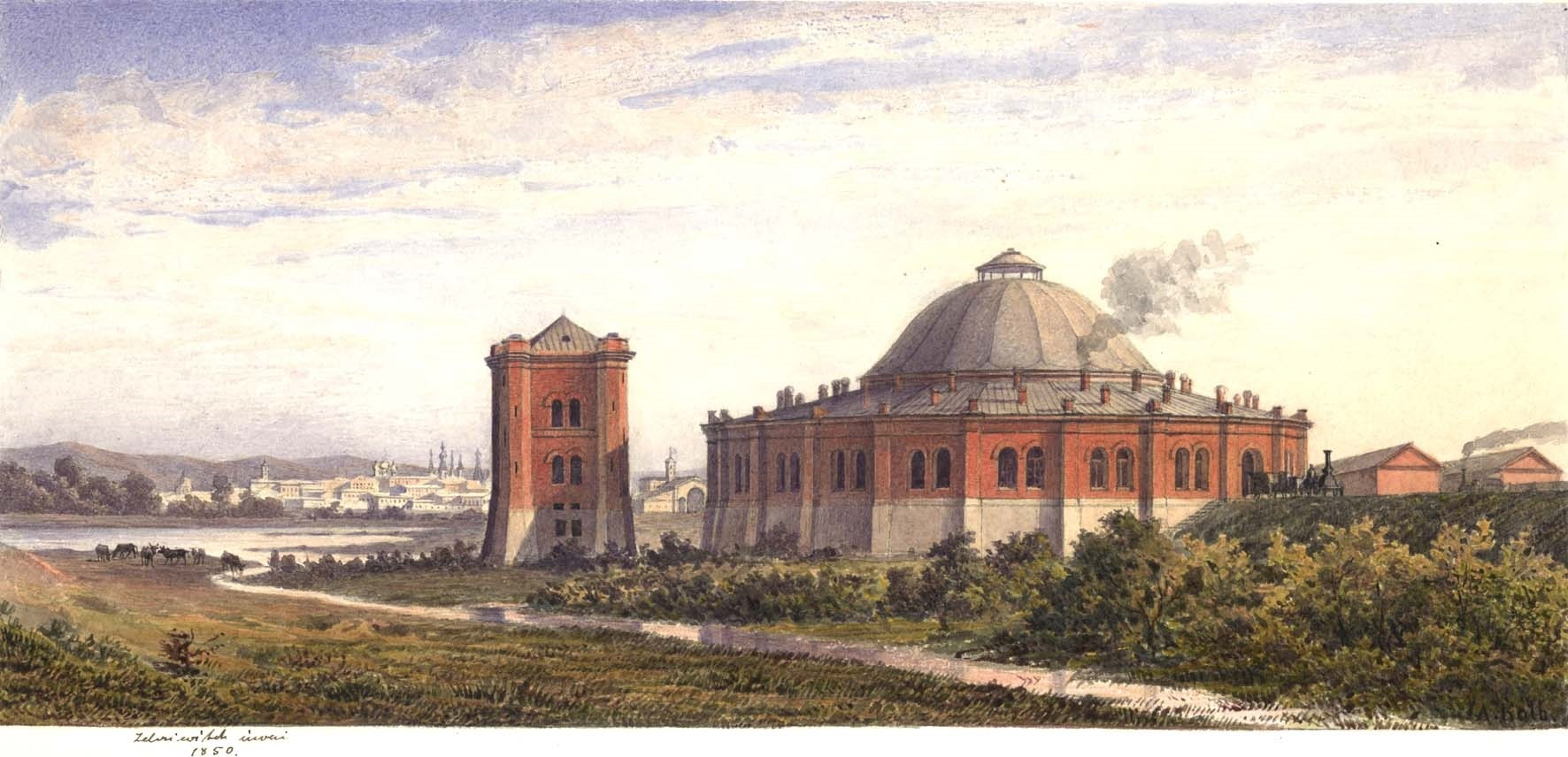 Roundhouse steam engine depot on Moscow-Saint Petersburg Railway